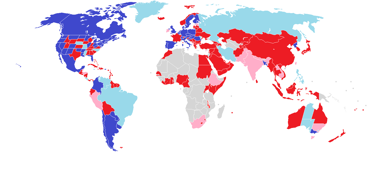 Legal status of cannabis for medical purposes Legal or essentially legal Decriminalized Illegal but often unenforced Illegal No information